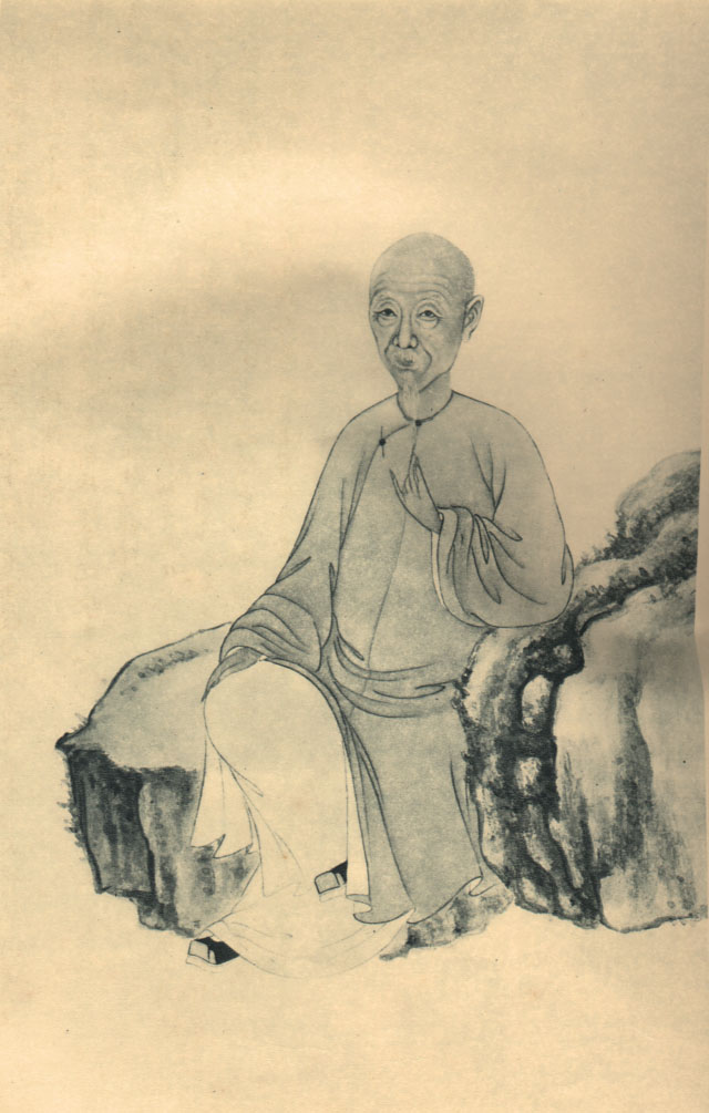 Qin Songling, politician and poet of the Qing Dynasty.